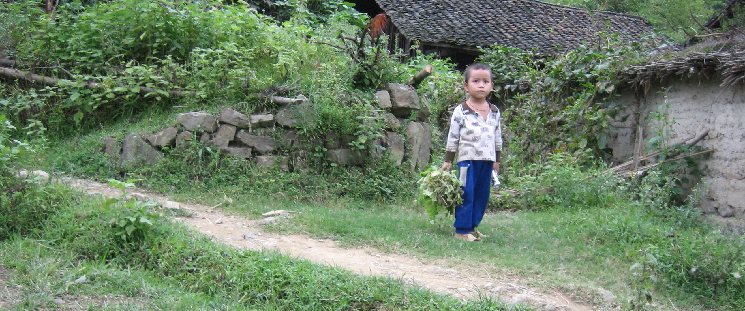 Young Miao boy in Guizhou, China